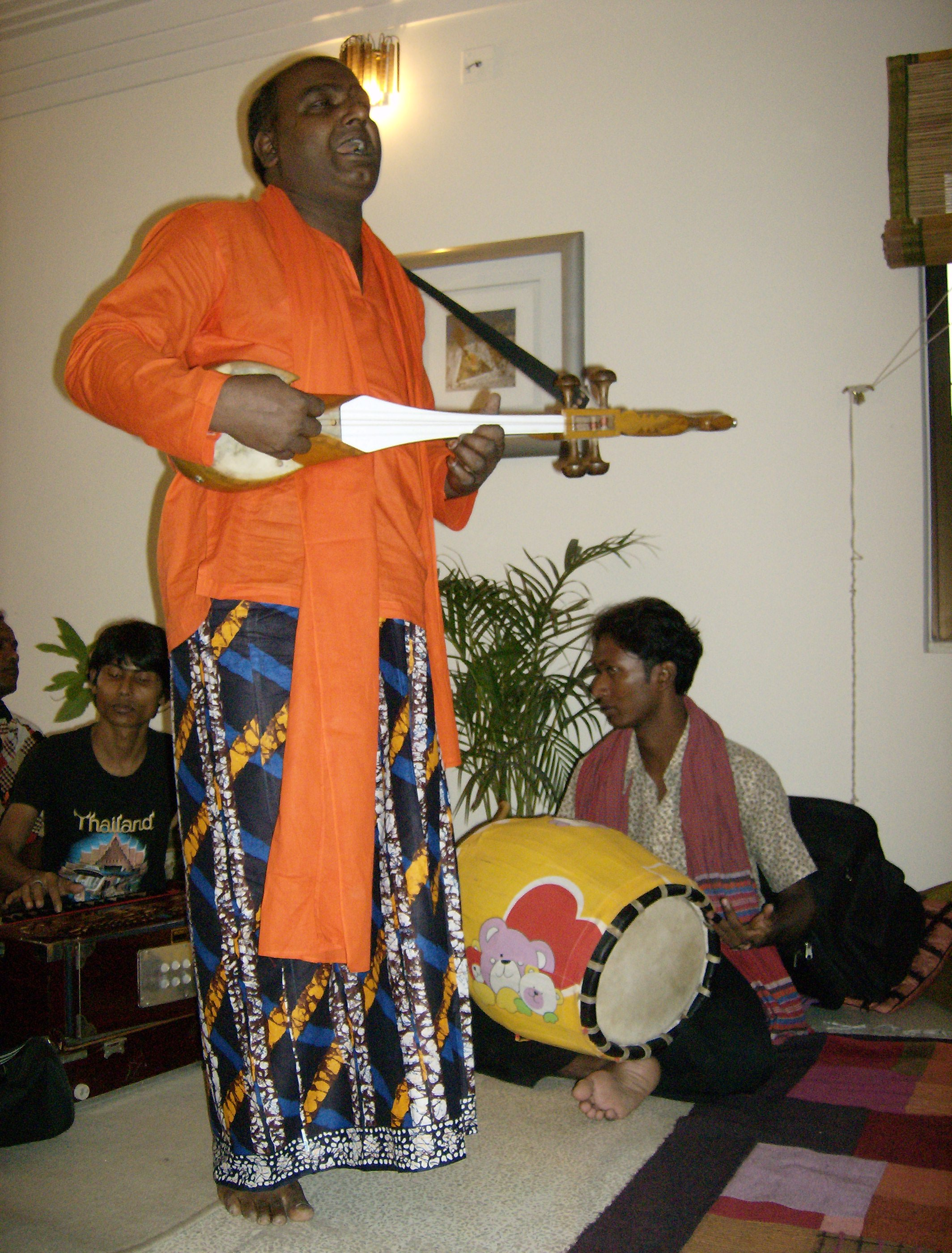 Dotara player in Dhaka, Bangladesh